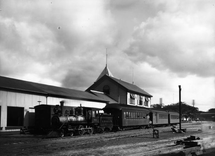 Title: O'ahu R.R. Depot Creator: Brother Bertram Subjects: Honolulu; Trains; Buildings; Plants Island: Oahu City: Honolulu Location: Honolulu, HI